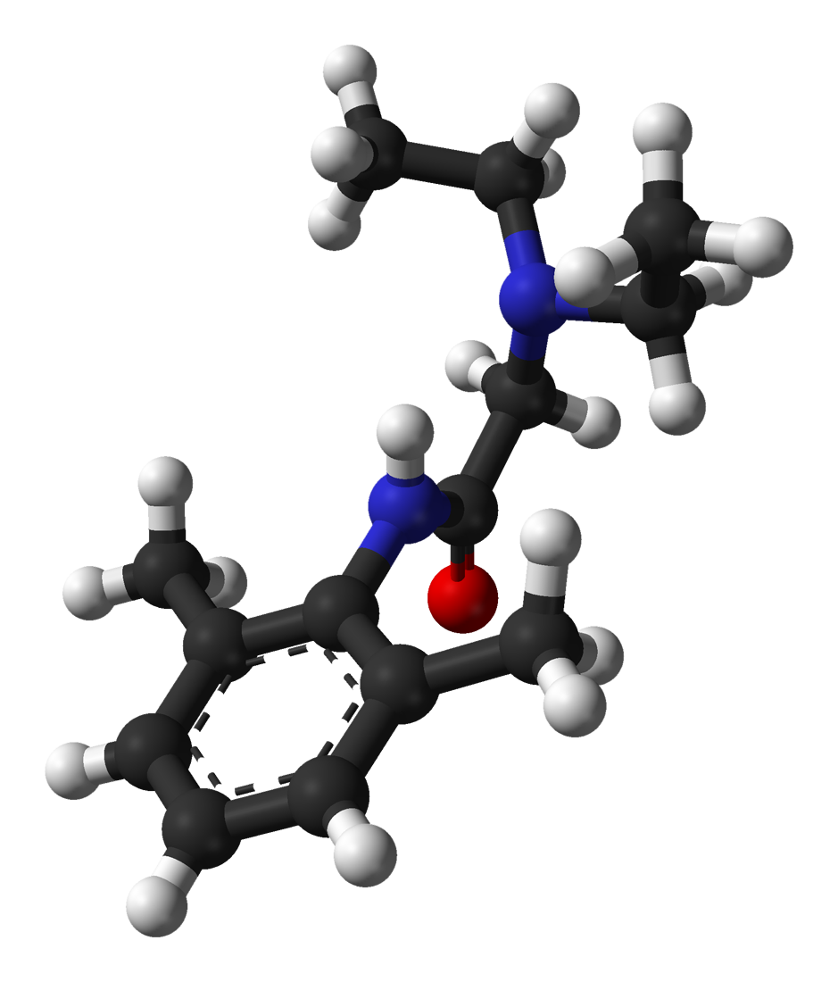 Ball-and-stick model of the lidocaine molecule, as found in the crystalline state. X-ray crystallographic data from M. Bambagiotti-Alberti, B. Bruni, M. Di Vaira, V. Giannellini, A. Guerri (February 2007). "2-(Diethylamino)-N-(2,6-dimethylphenyl)acetamide, a low-temperature redetermination". Acta Cryst. E63 (2): o768-o770. Model constructed in CrystalMaker 8.1. Image generated in Accelrys DS Visualizer.